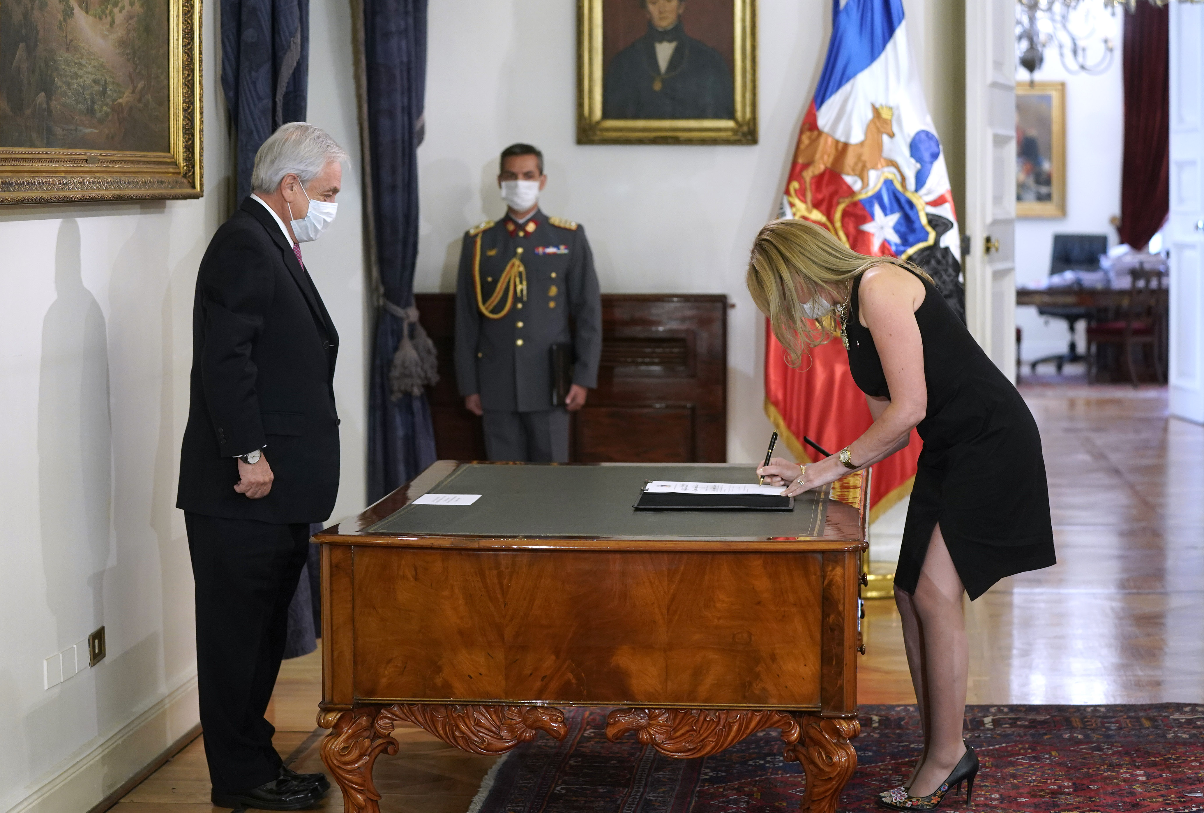 Official photo of Macarena Santelices before Sebastián Piñera in the oath as Minister of Women and Gender Equity on May 6, 2020